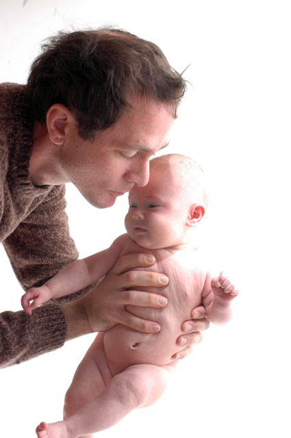 father-daughter relationship